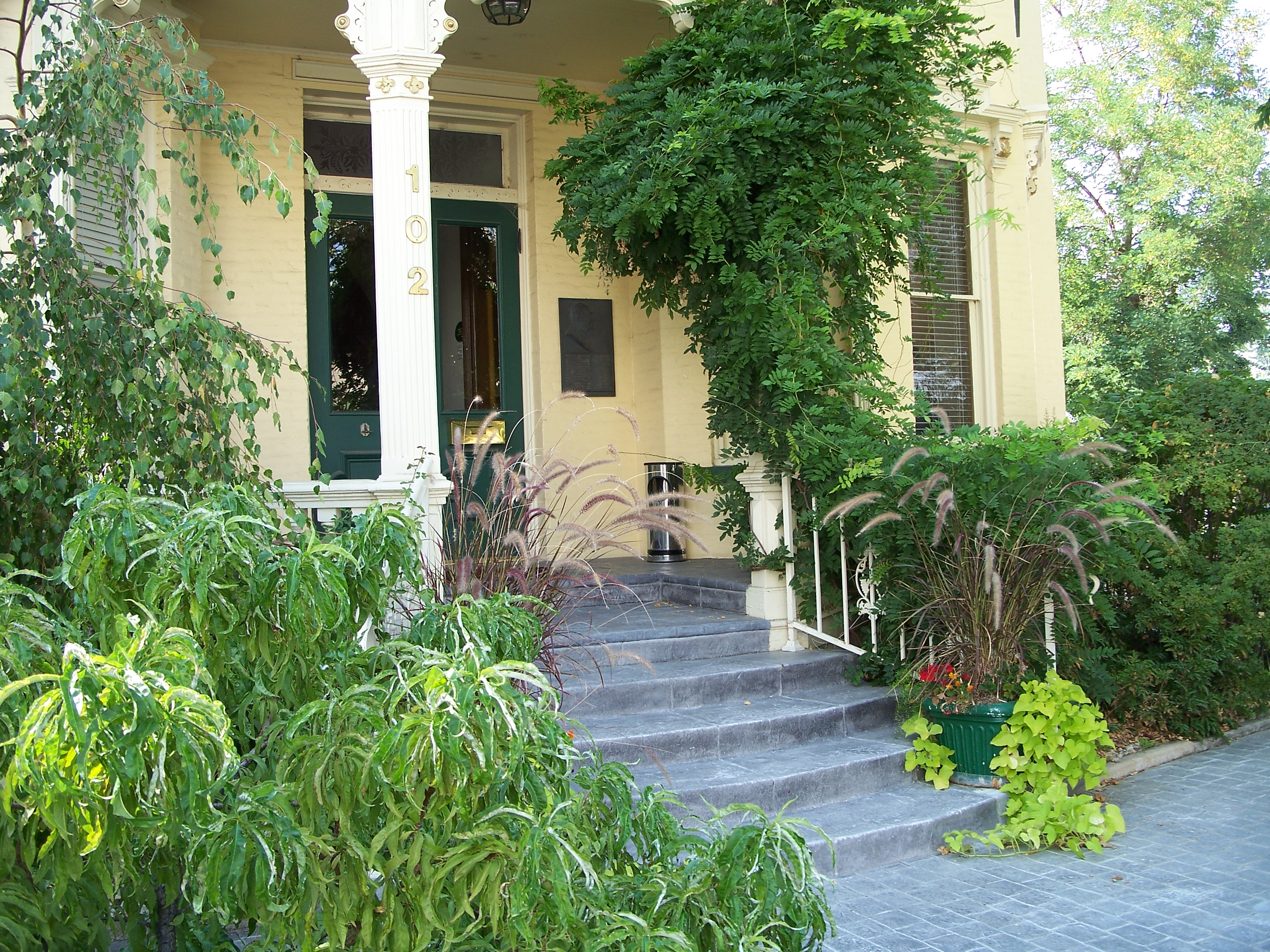 The front entrance of the Rinckel Mansion, 102 N. Curry St., Carson City, NV. It is the location of the Nevada Press Association, Nevada Newspaper Hall of Fame and several capital bureaus for newspapers.